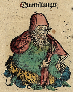 This is a part of a scan of an historical document: Title: Schedelsche Weltchronik or Nuremberg Chronicle